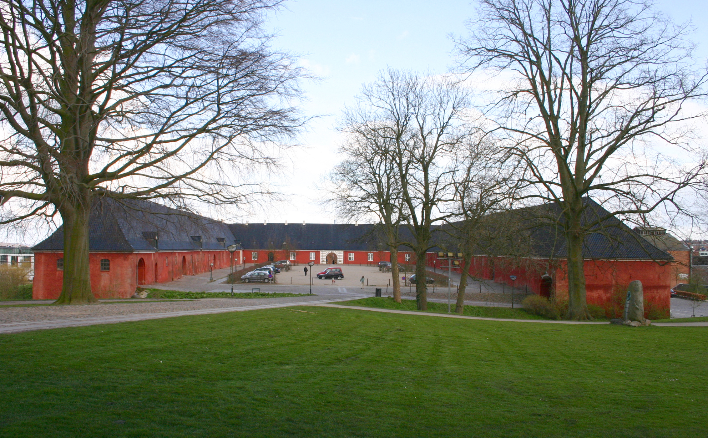 Staldgården.Building from around 1600.Used in 200 years by danish military.Was Gestapo headquarter in Sønderjylland under World War2.